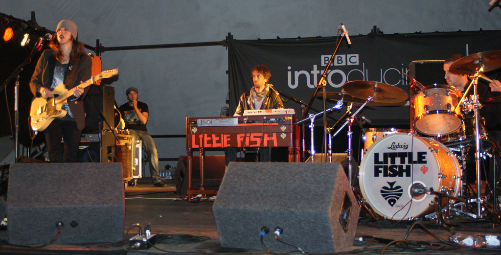 Little Fish live at the Leeds Festival August 2010